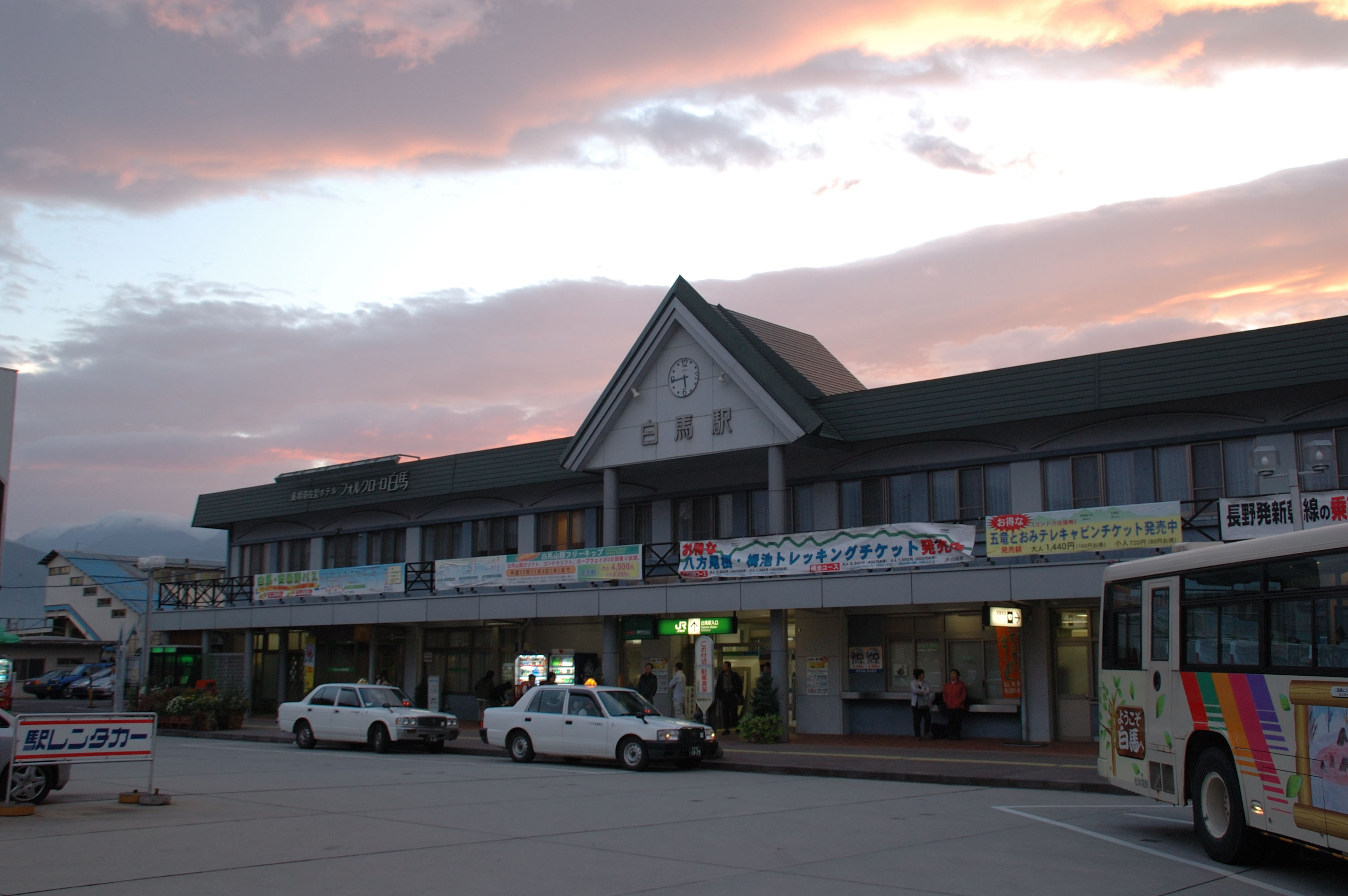 JR-EAST(JAPAN) Ooito Line, Hakuba Sta. photo by 2005.10.1